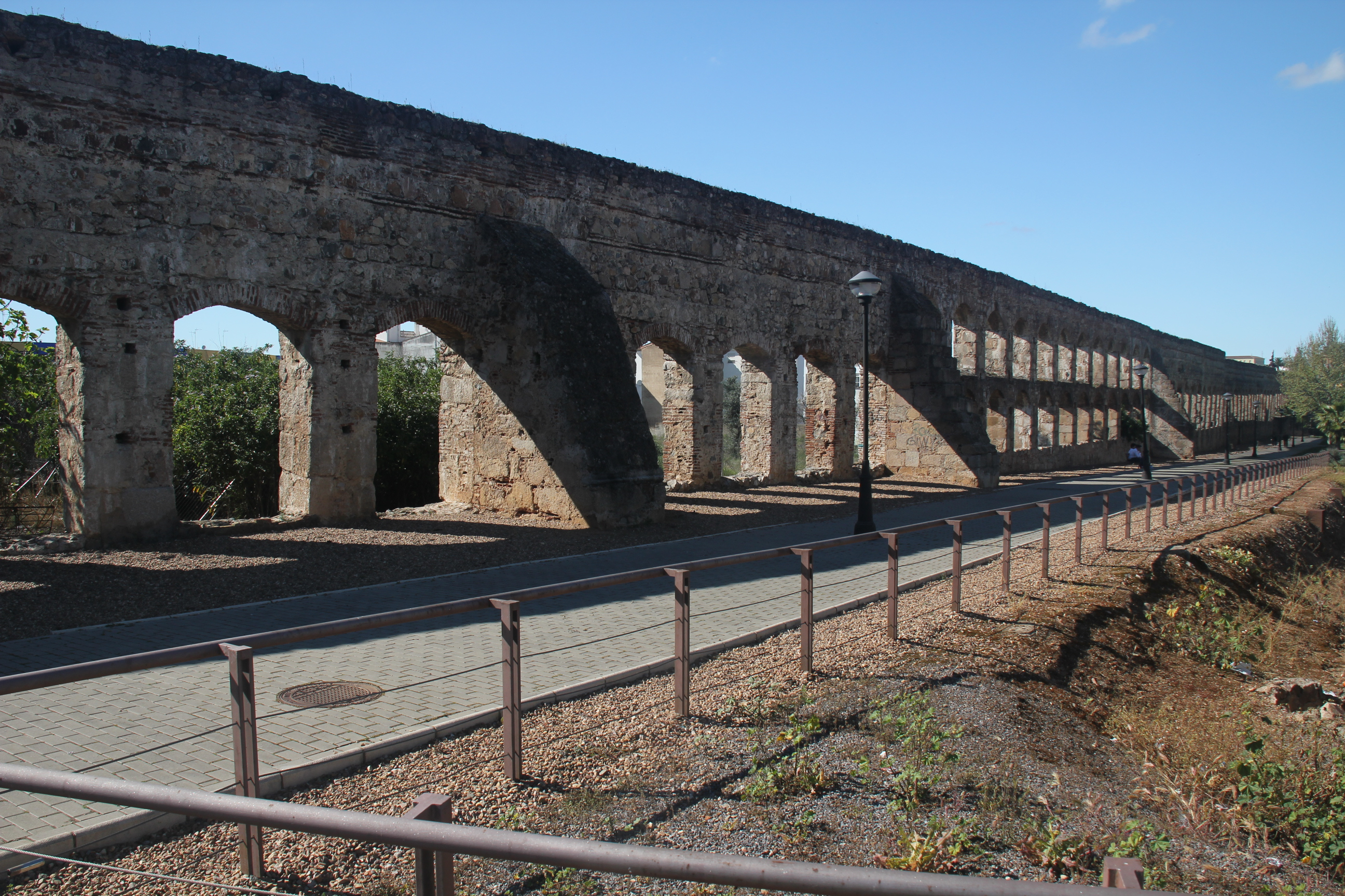 The Aqueduct of St. Lazarus in Mérida